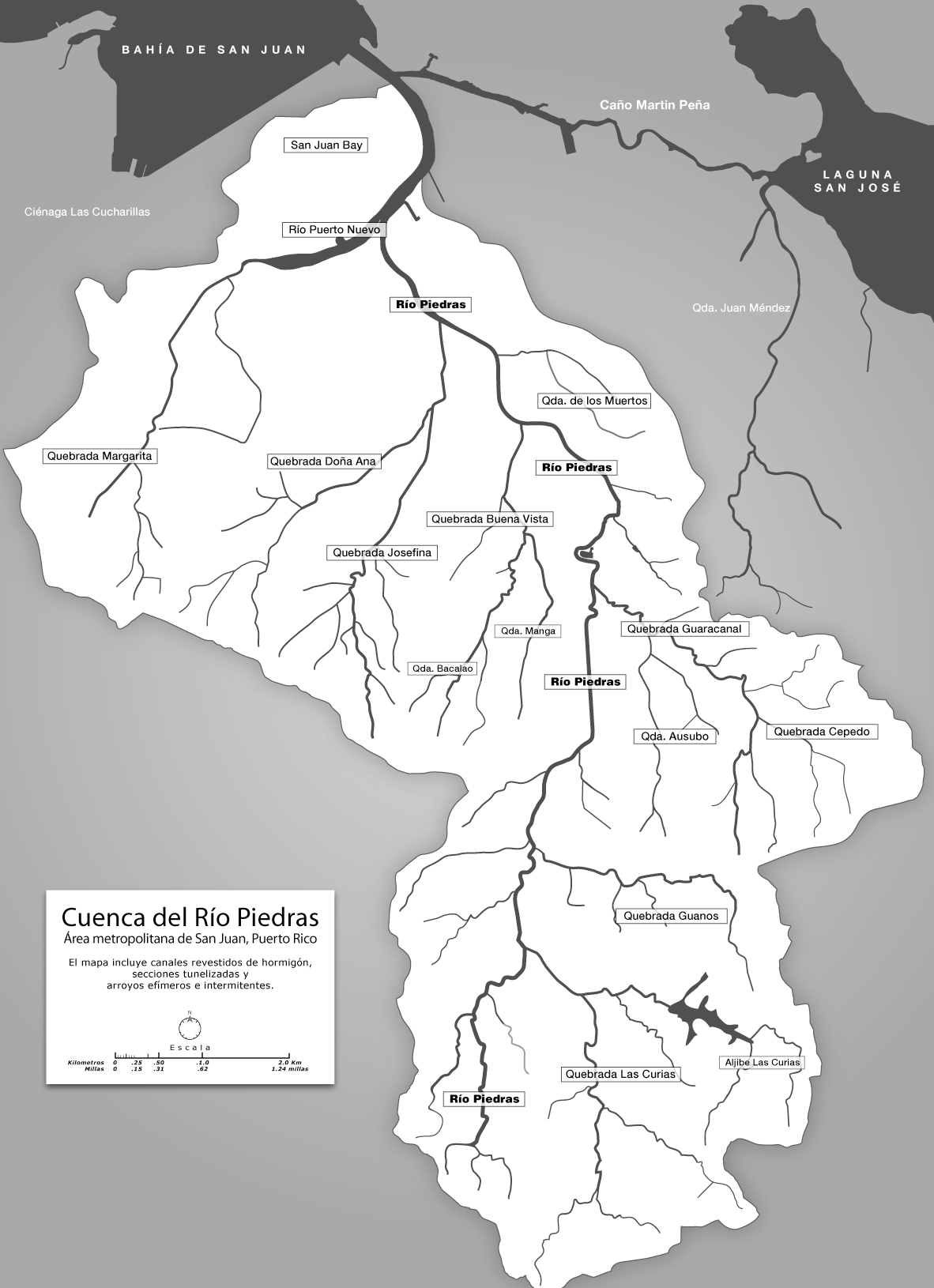 Also known as San Juan Bay Estuary Watershed and the Río Piedras Watershed